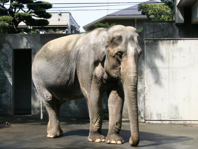 アジアゾウのはな子, in 井の頭自然文化園, Tokyo, taken by Kazubon, in 28 April 2006